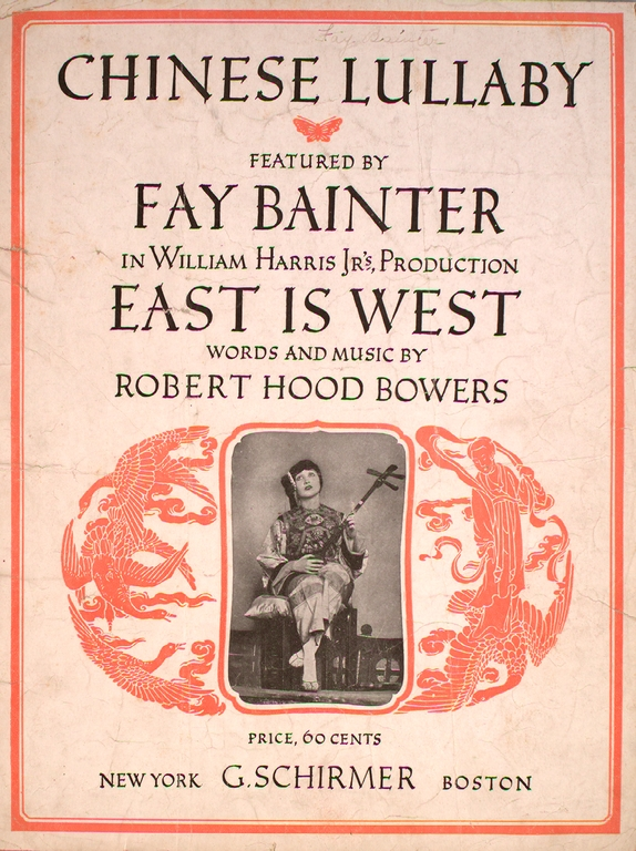 Cover of published sheet music for "Chinese Lullaby", a song by Robert Hood Bowers sung by Fay Bainter in the Broadway production East is West